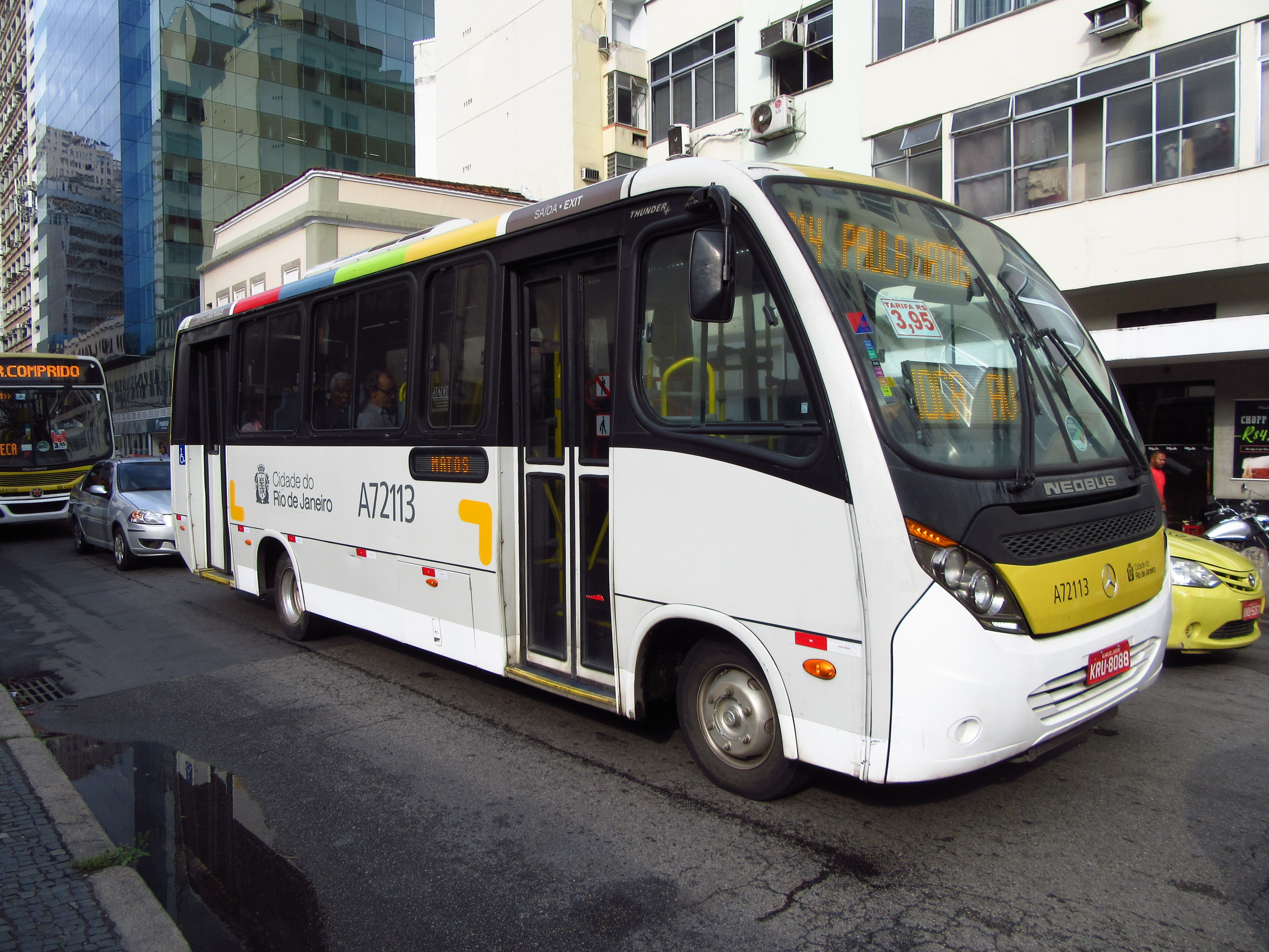 2018 Rio de Janeiro